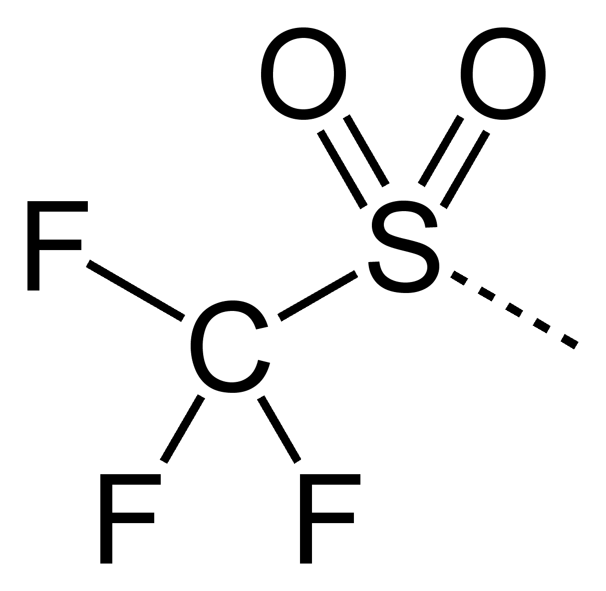 Structural formula of the triflyl group, –Tf, –SO2CF3. Synonyms: trifluoromethanesulfonyl Structure drawn in ChemBioDraw Ultra 12.0.